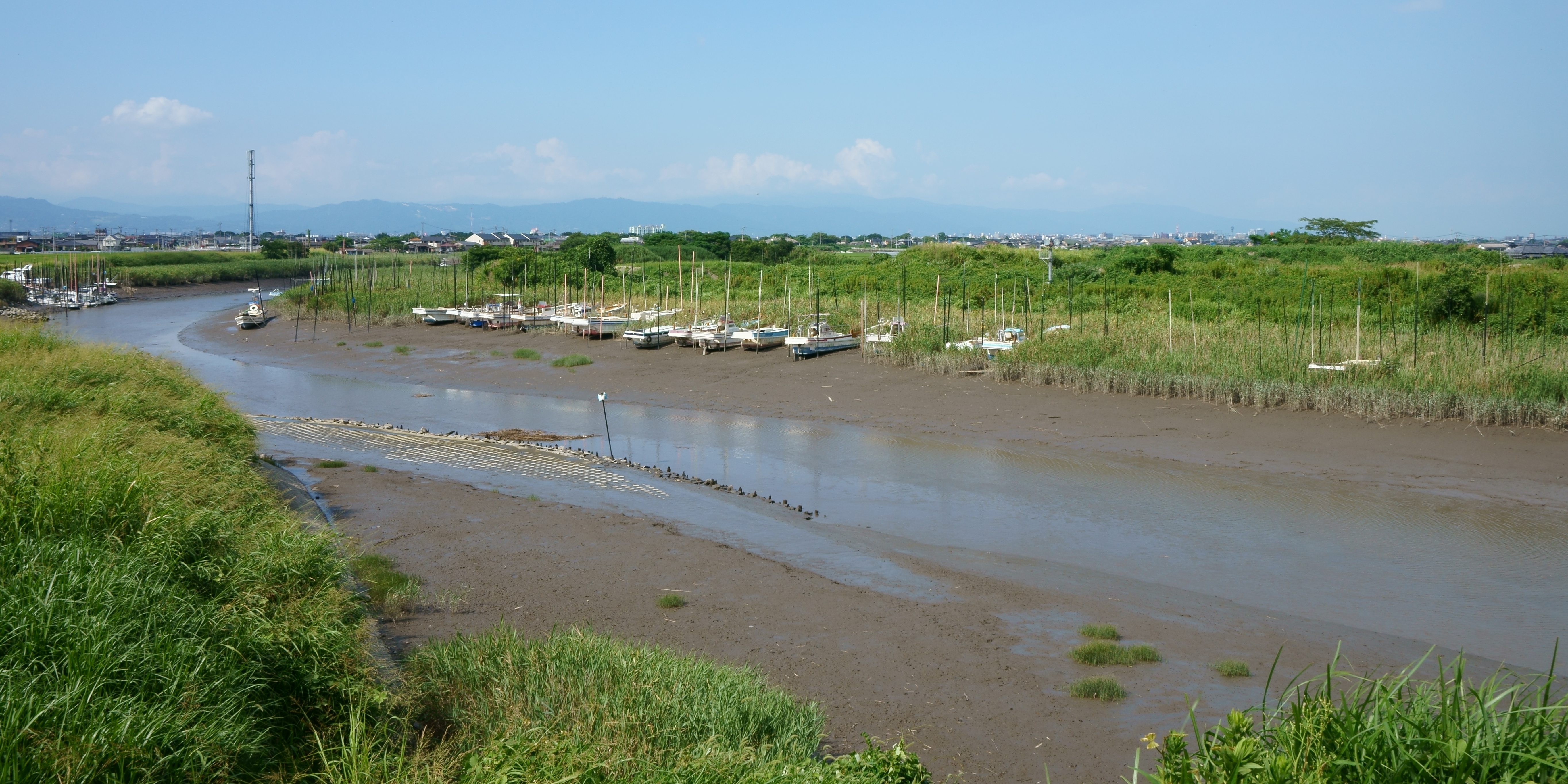 The lower stream of Honjo-e River and cityscape of Saga, in Kase, Saga city, Saga prefecture.